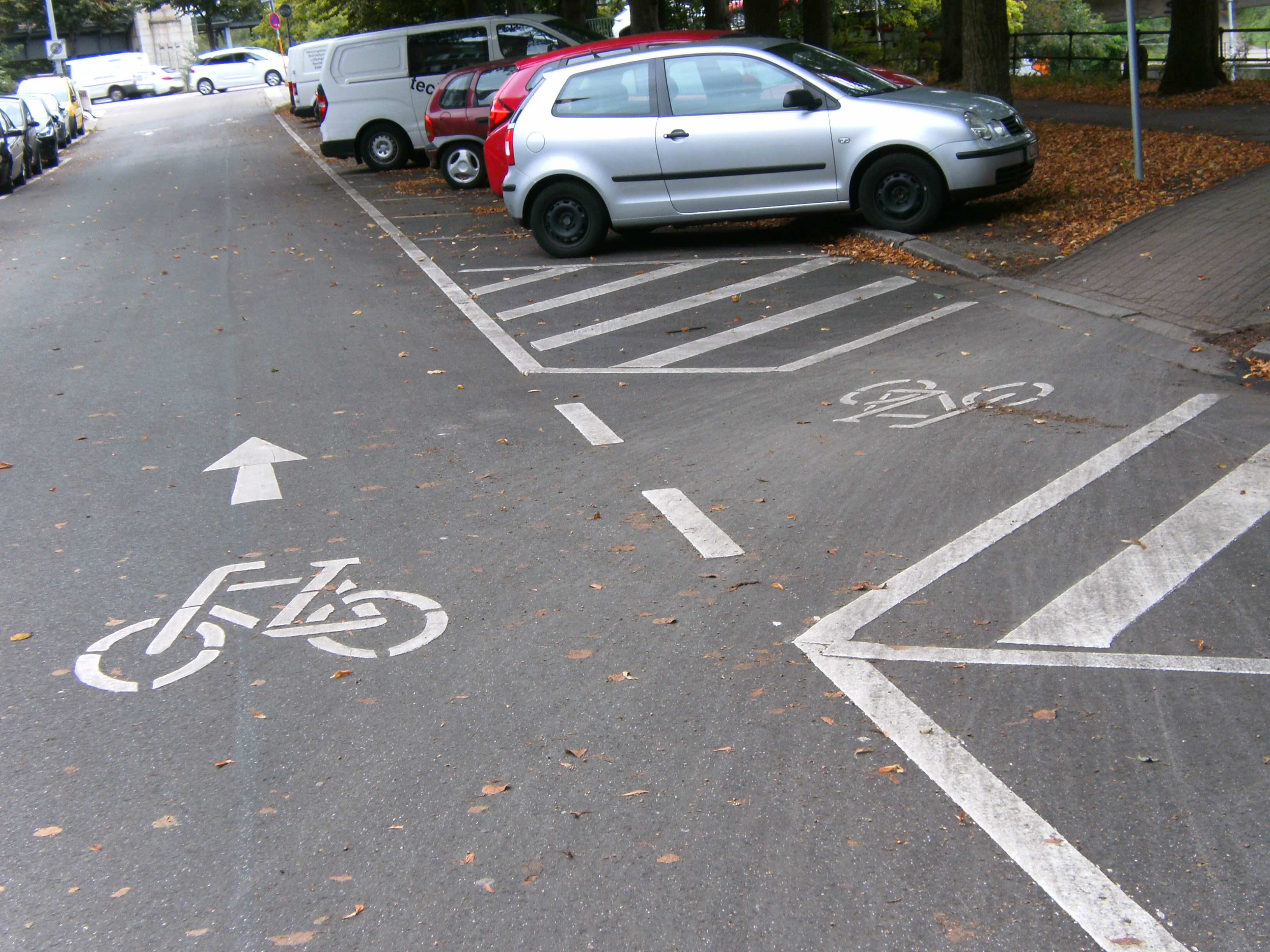 Veloroute 6 (Hamburg), Germany leading out of town. Hartwicusstraße: bifurcation to pass under Kuhmühlenbrücke.